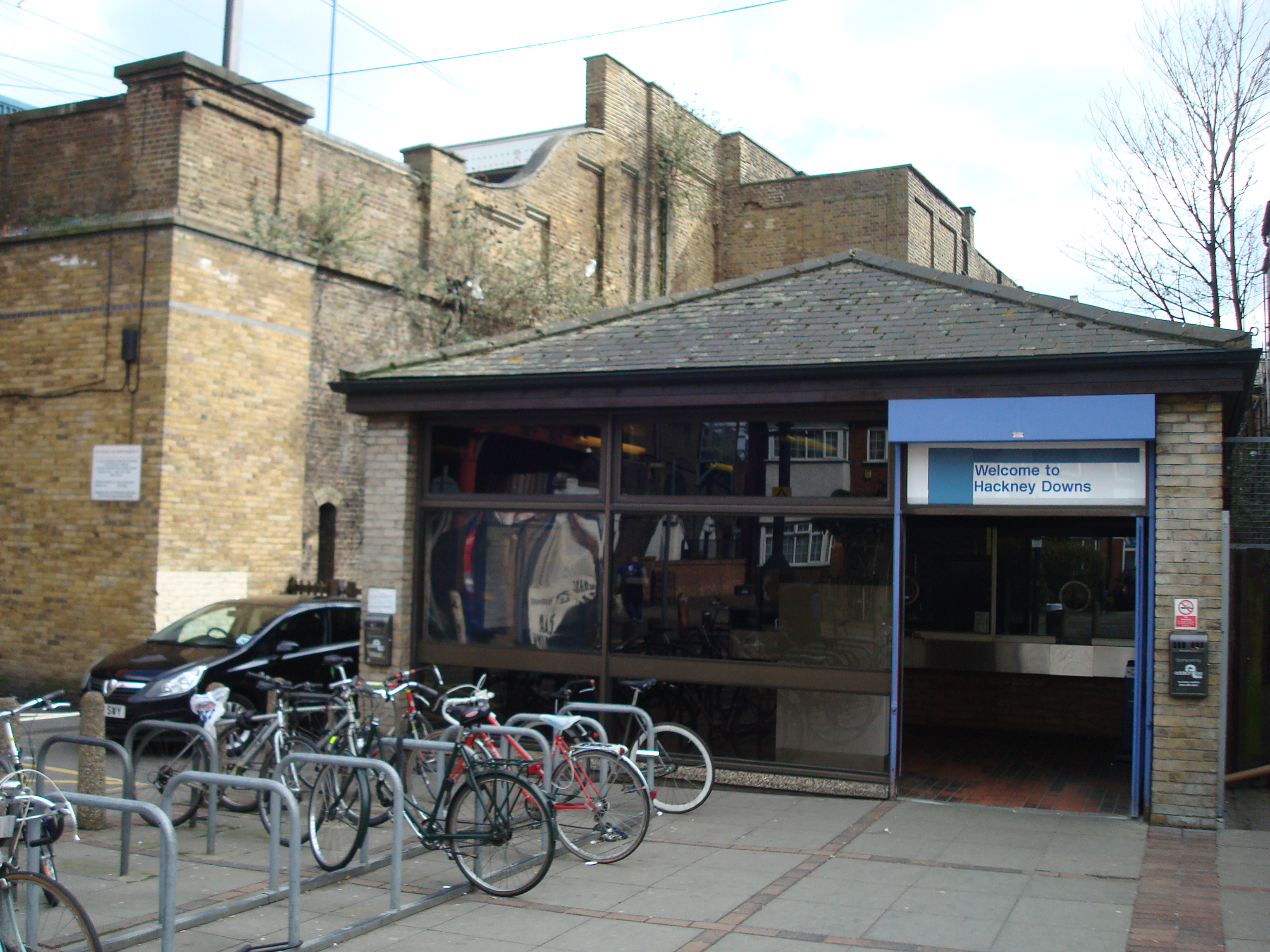 Hackney Downs Railway Station